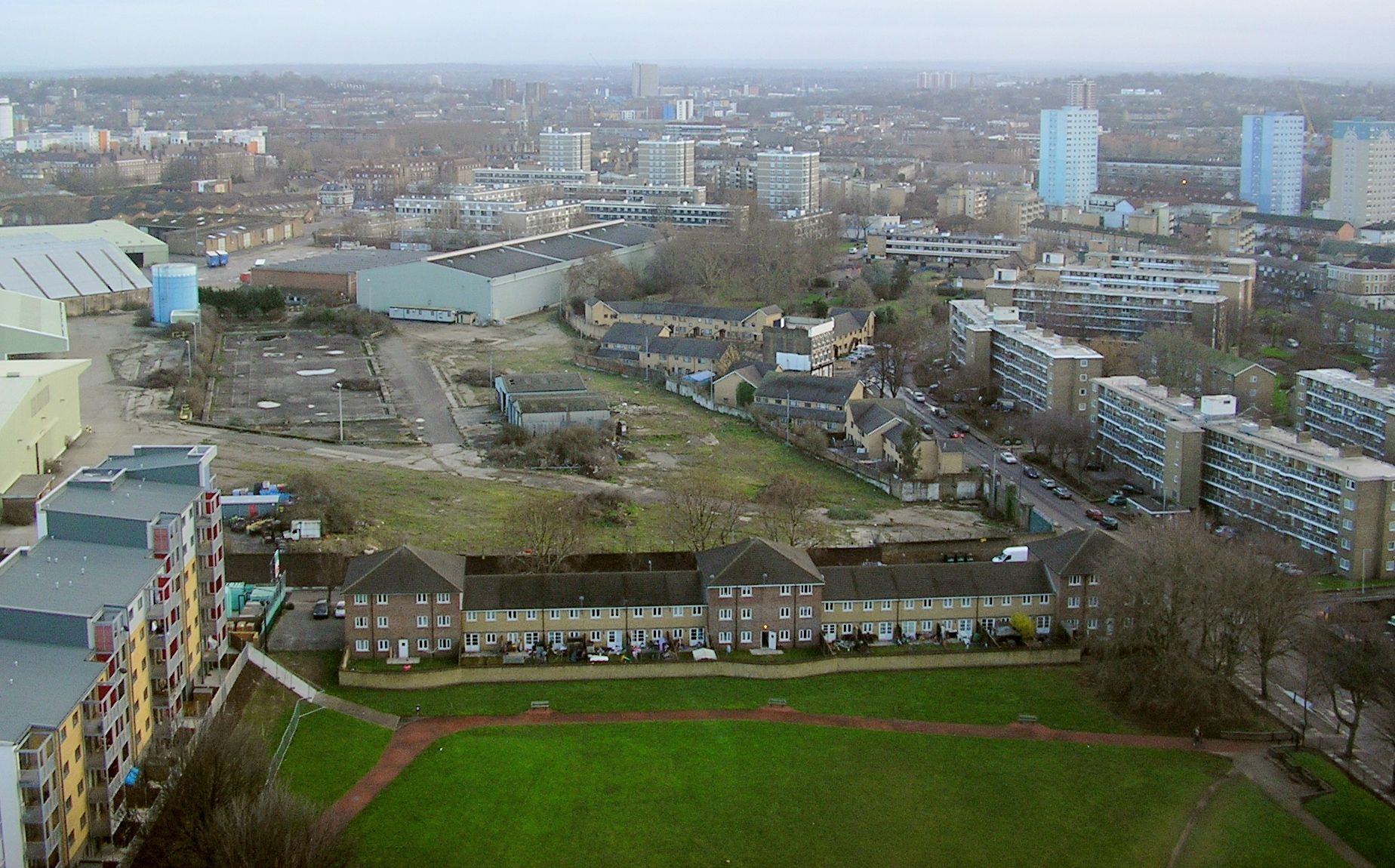 A view of Convoy's Wharf, Sayes Court Park, and over Deptford towards Lewisham. Photographed from Daubeney Tower on Pepys Estate, Deptford on 6th Jan 2008.